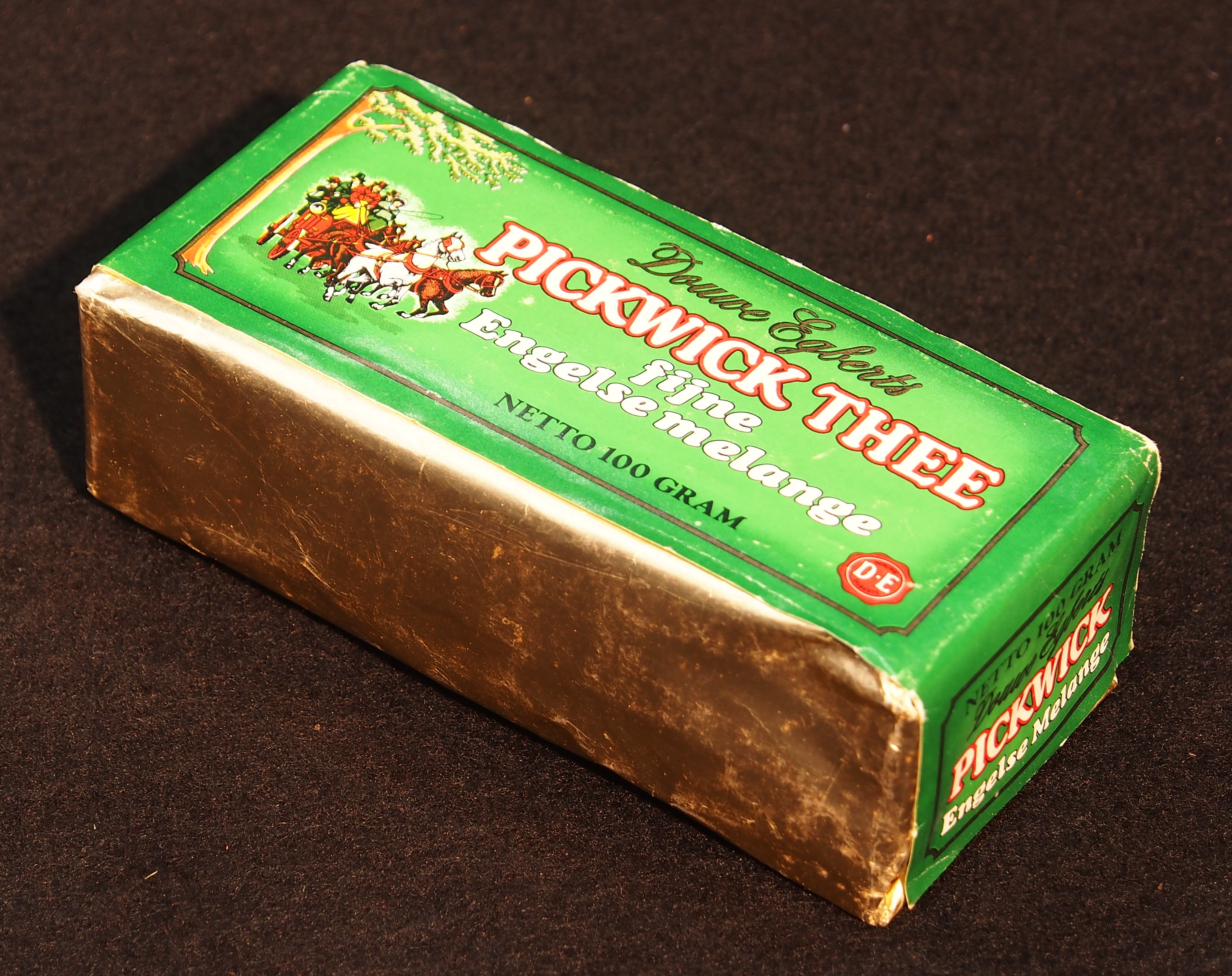 Very old packaging of a product that is not produced and not sold any more.